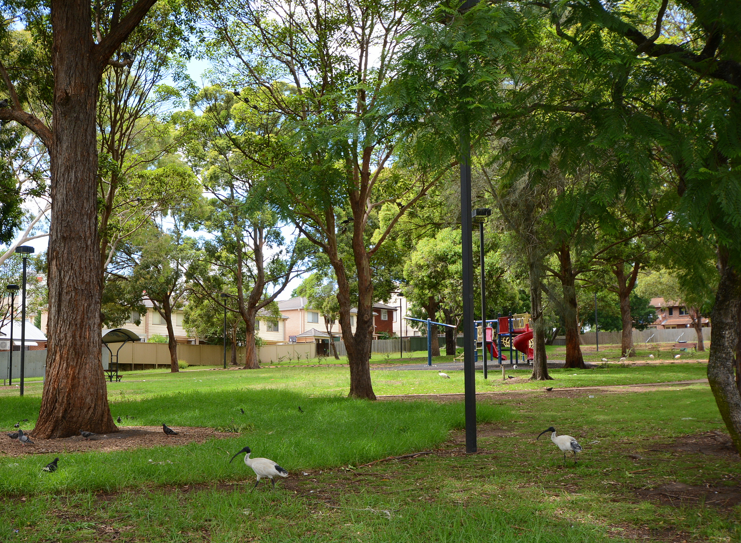 Civic Park, Auburn, Sydney